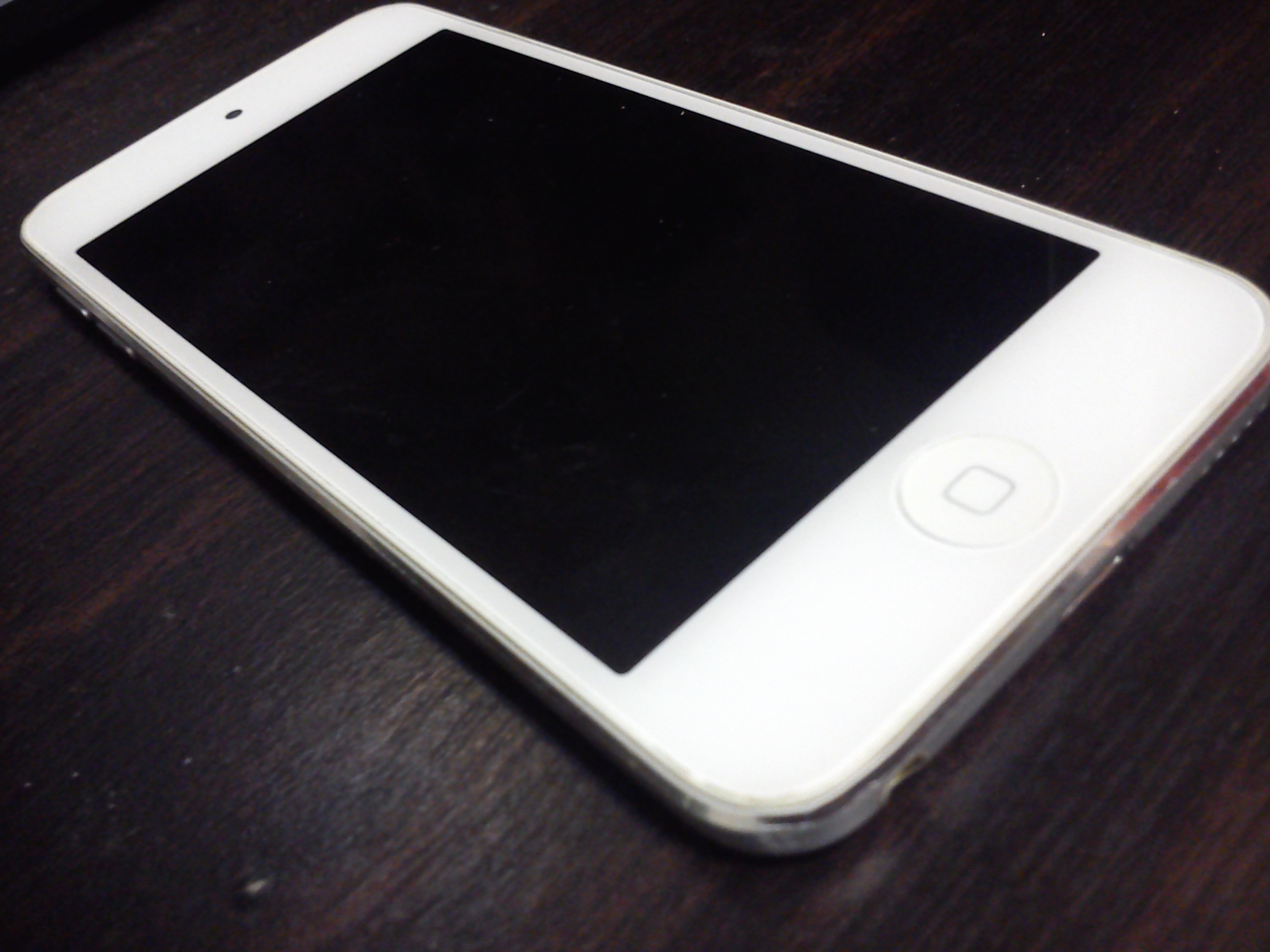 iPod touch 3 face1